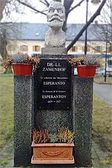 Monument to Zamenhof in Woergl, AustriaEsperanto: Monumento al Zamenhof, en Woergl, Auxstrio. Fotisto: Christian Eppler (Aŭstrio)